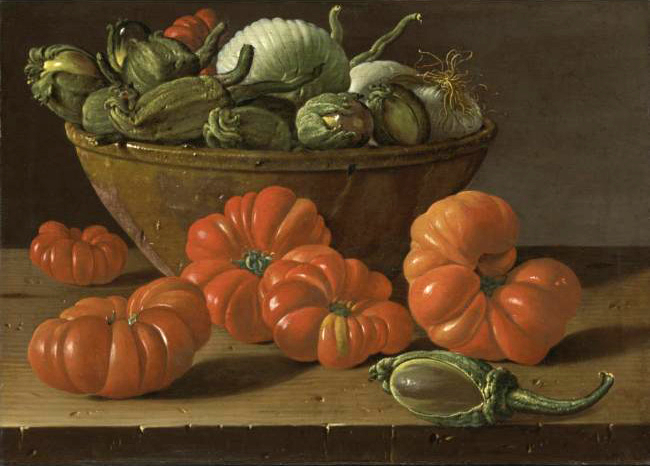 Still Life with Tomatoes a Bowl of Aubergines and Onions. Oil on canvas, 36,8 x 49 cm